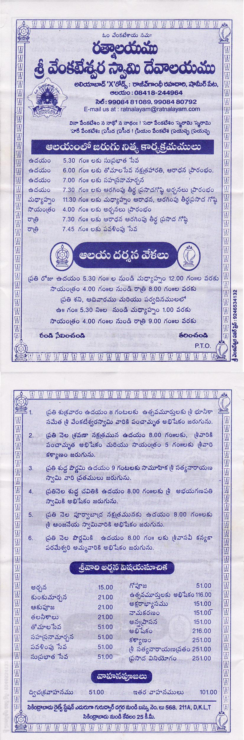 Ratnalayam's pamphlet